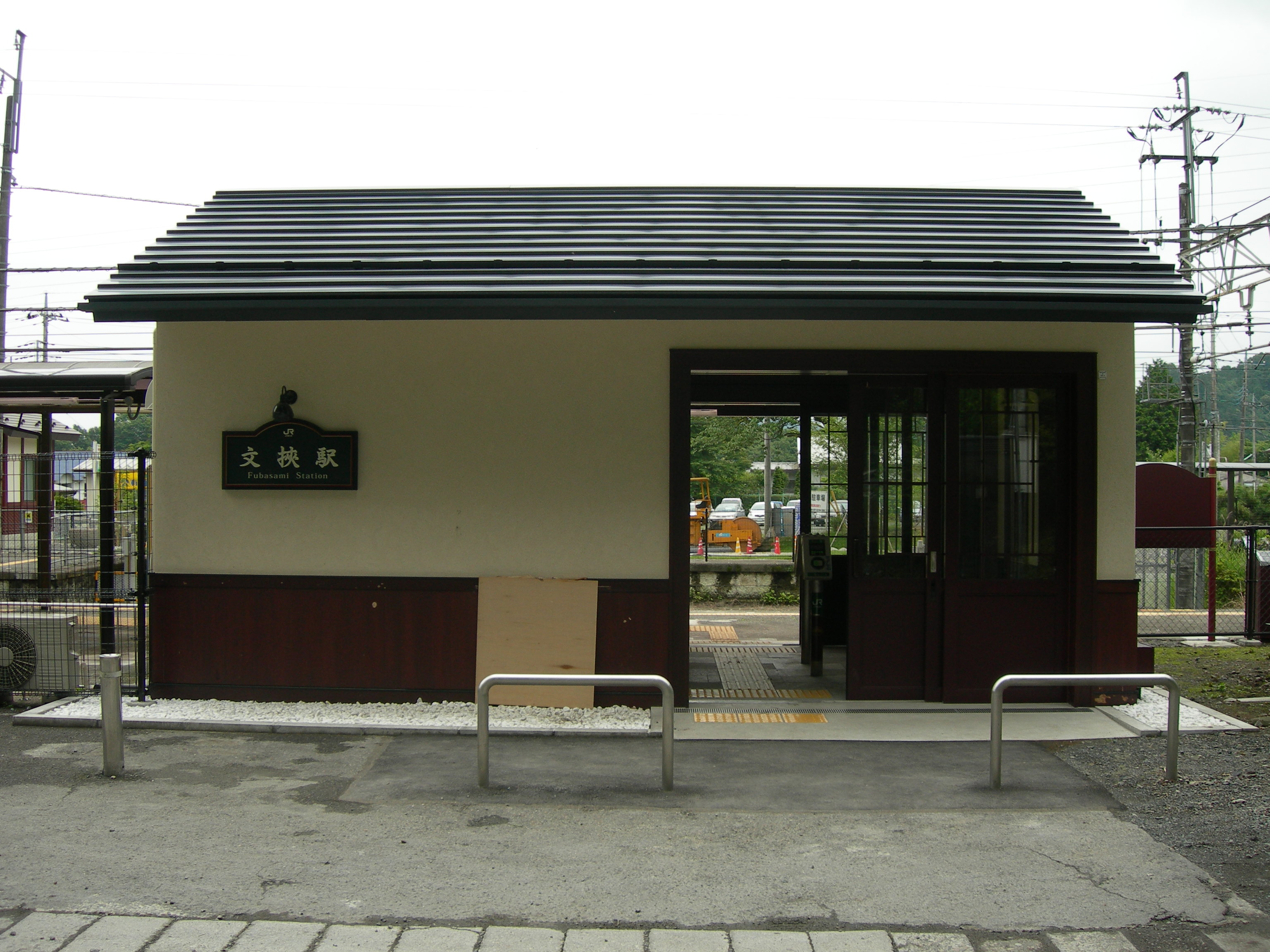 Fubasami Station building